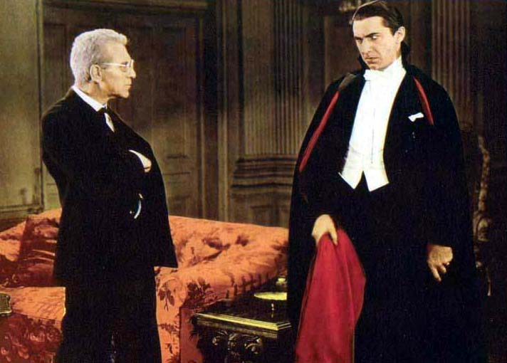 Cropped and edited lobby card for the 1931 film Dracula, featuring Bela Lugosi and Edward Van Sloan. This image is assumed to be in the public domain, as no copyright notice is in evidence (see original below).